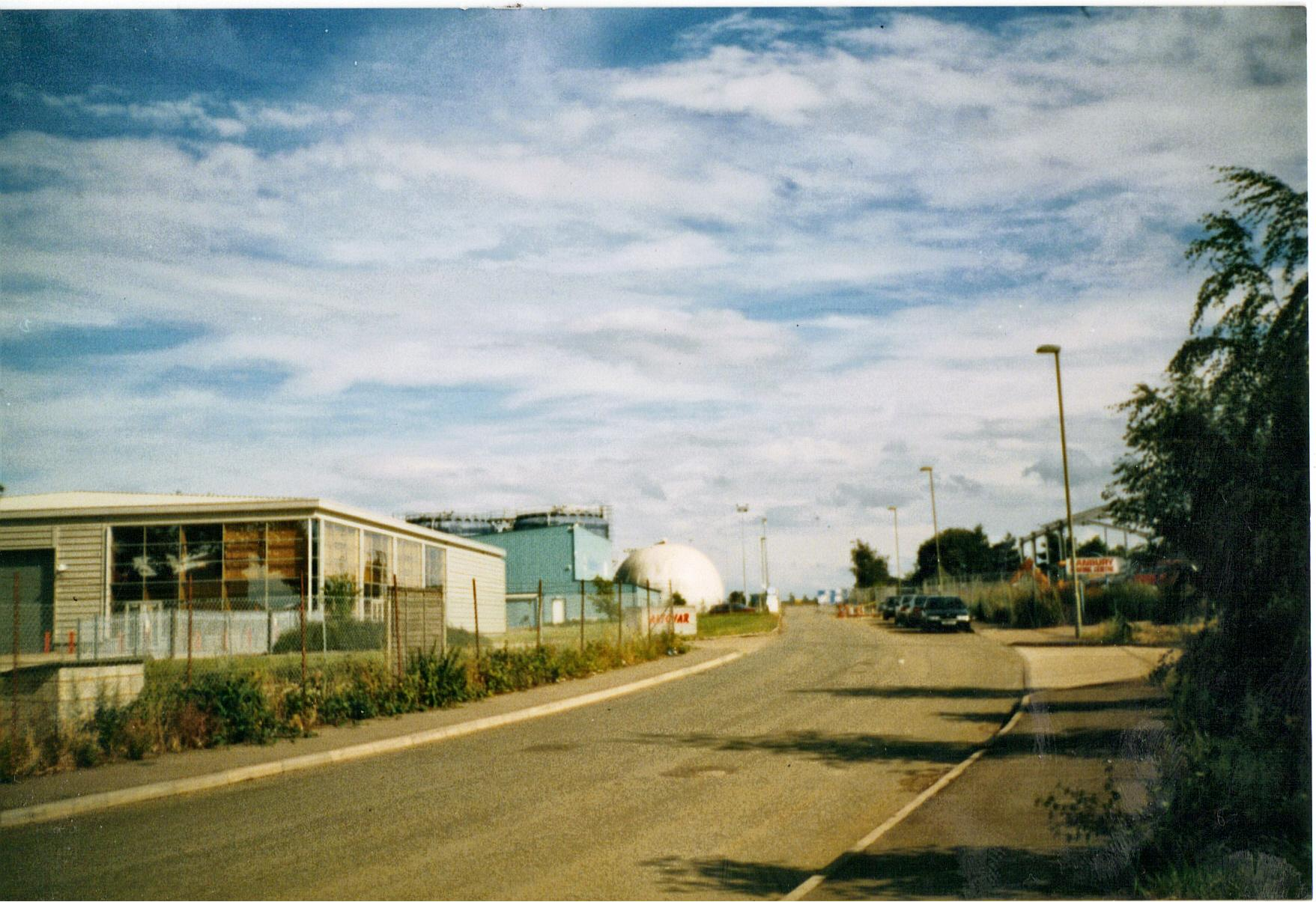 I took this picture of Banbury Sewerage works in 2006.